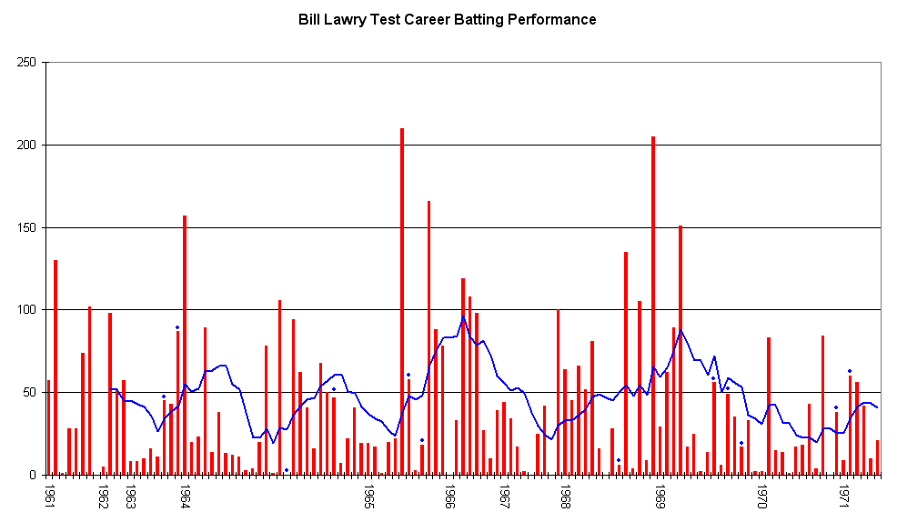 This graph details the Test Match performance of Bill Lawry. It was created by Raven4x4x. The red bars indicate the player's test match innings, while the blue line shows the average of the ten most recent innings at that point. Note that this average cannot be calculated for the first nine innings. The blue dots indicate innings in which Lawry finished not-out. This graph was generated with Microsoft Excel 2002, using data from Cricinfo [1] and Howstat [2].